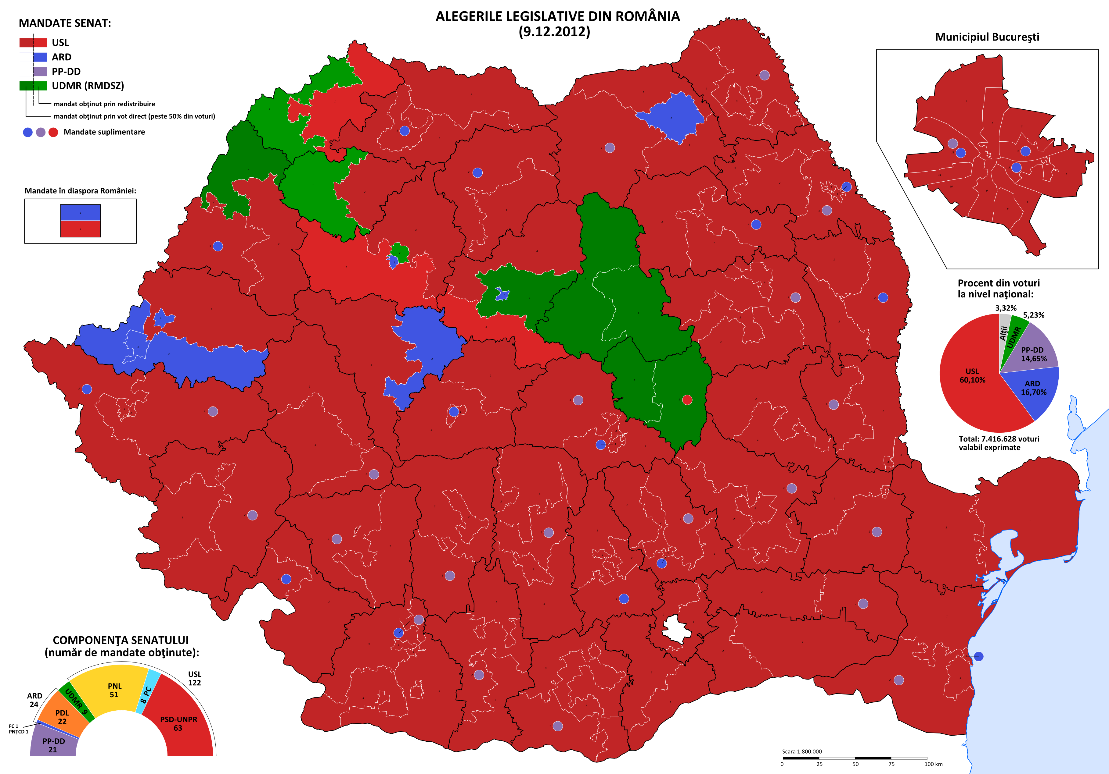 Results of the 2012 Romanian legislative election - Senate Software used: OpenJUMP GIS ( and Inkscape( Note: In case of use/adaptation/distribution this work must be attributed to politicalcolors.ro and Andrein and must carry an identical license.